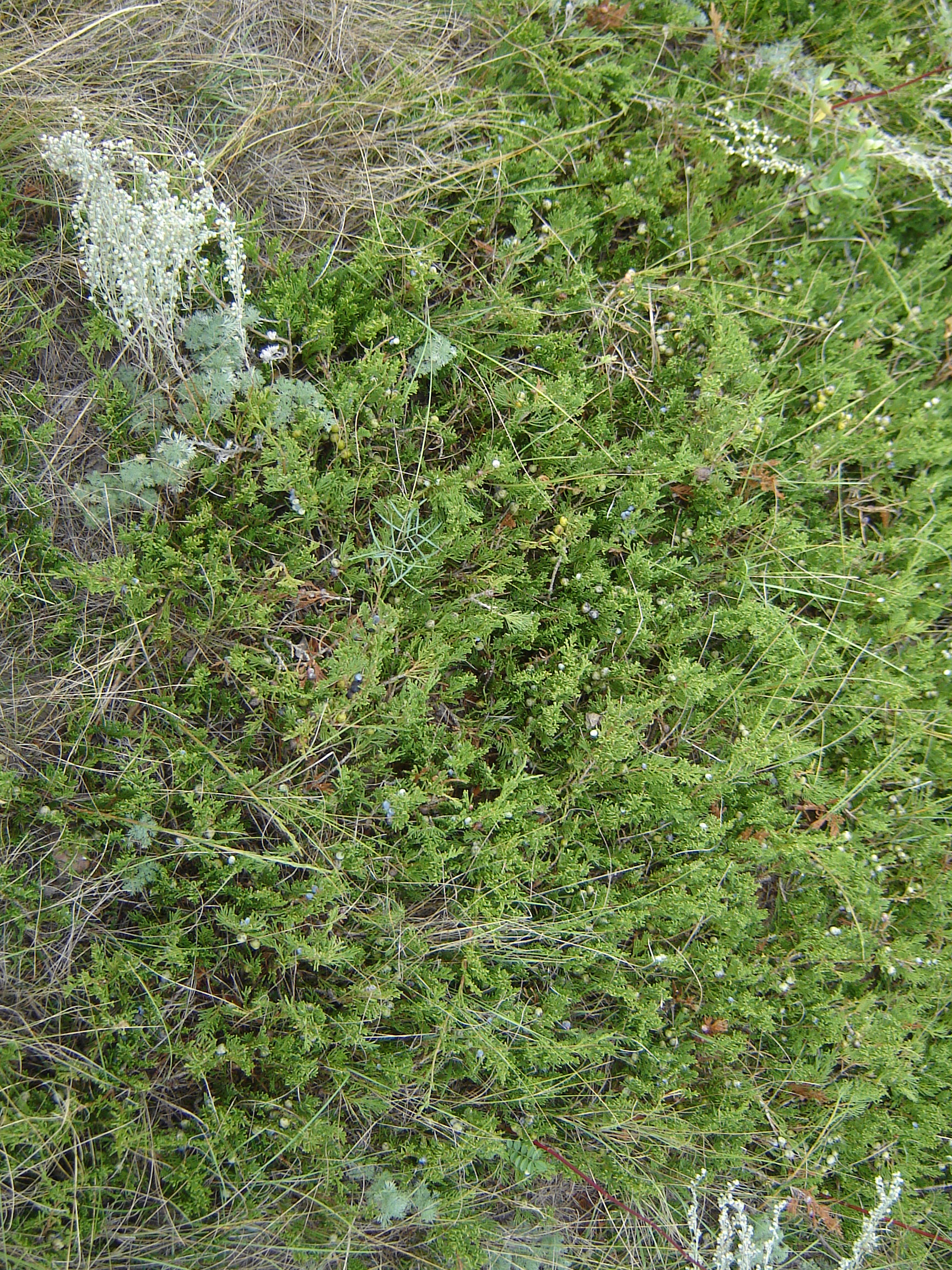 Juniperus. Juniper. Photo taken at Chief Whitecap Park near Saskatoon Saskatchewan. See also Juniper Juniperus horizontalis (Cupressaceae) - creeping juniper.